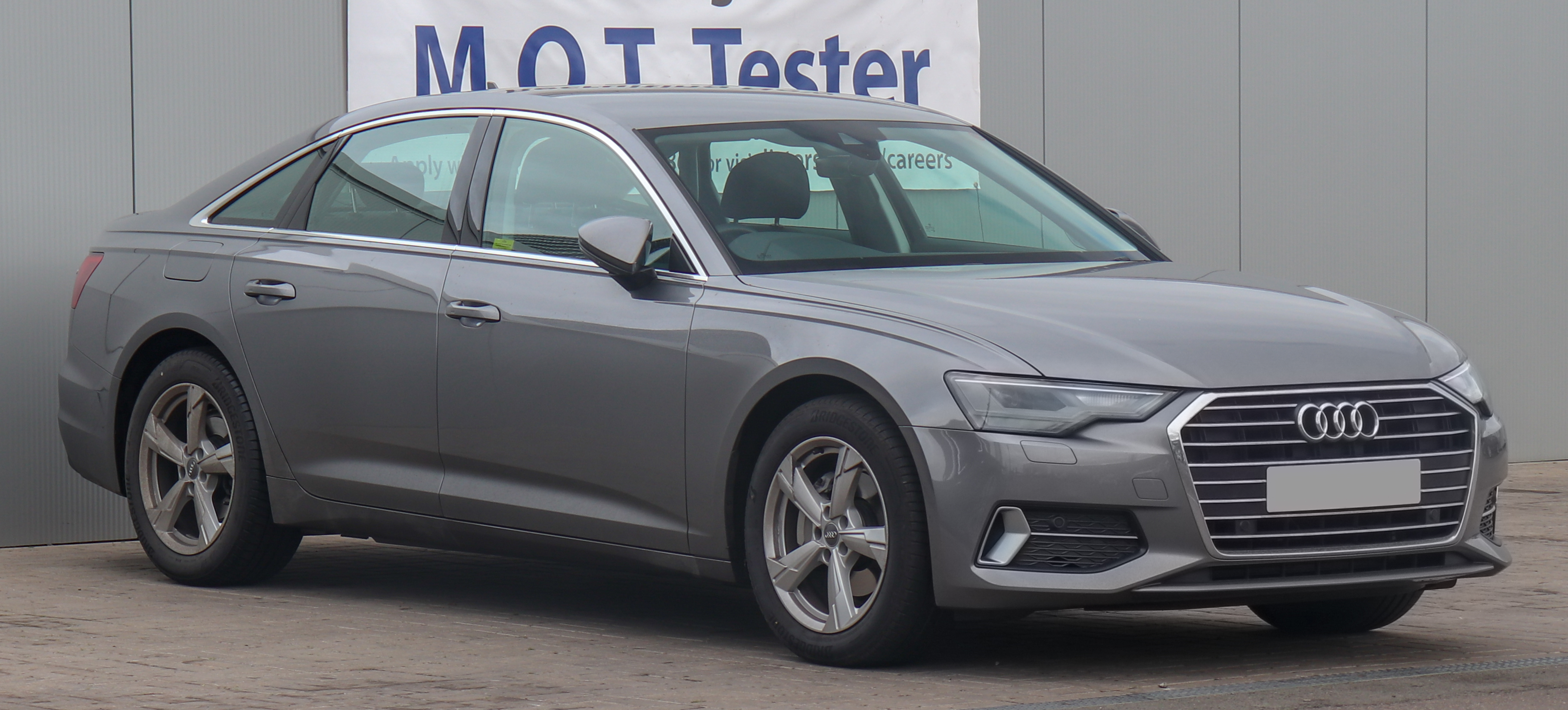 2018 Audi A6 Sport 40 TDi S-A 2.0 Taken in Stratford-upon-Avon